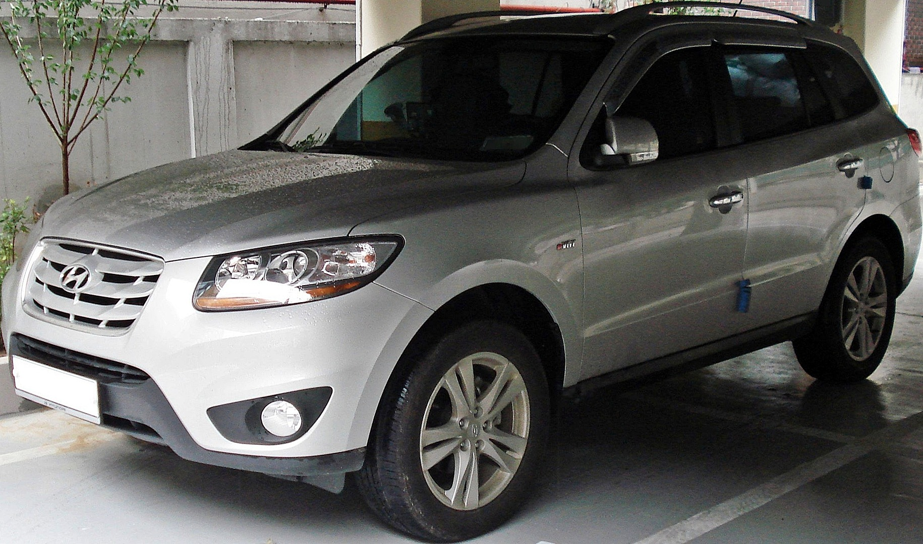 Hyundai Santa Fe The Style